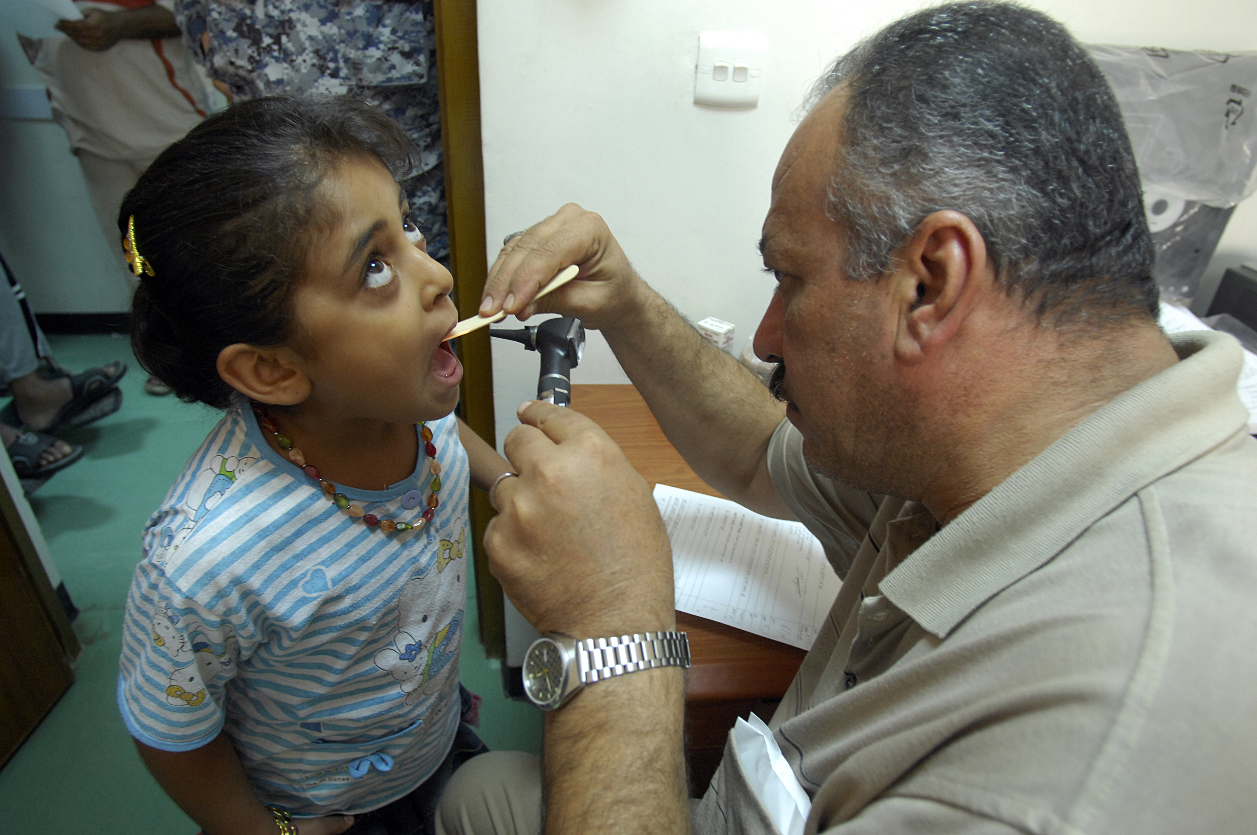 DOURA, Iraq (Aug. 28, 2008) An Iraqi doctor checks a child's throat during an examination at a free health clinic during a combined medical event for local Iraqi families. Both U.S. and Iraqi doctors, as well as U.S. Soldiers and Iraqi National Police were on site for the event, which was held on the Joint Security Site Doura. (U.S. Navy photo by Mass Communication Specialist 2nd Class Kelvin Surgener/Released)